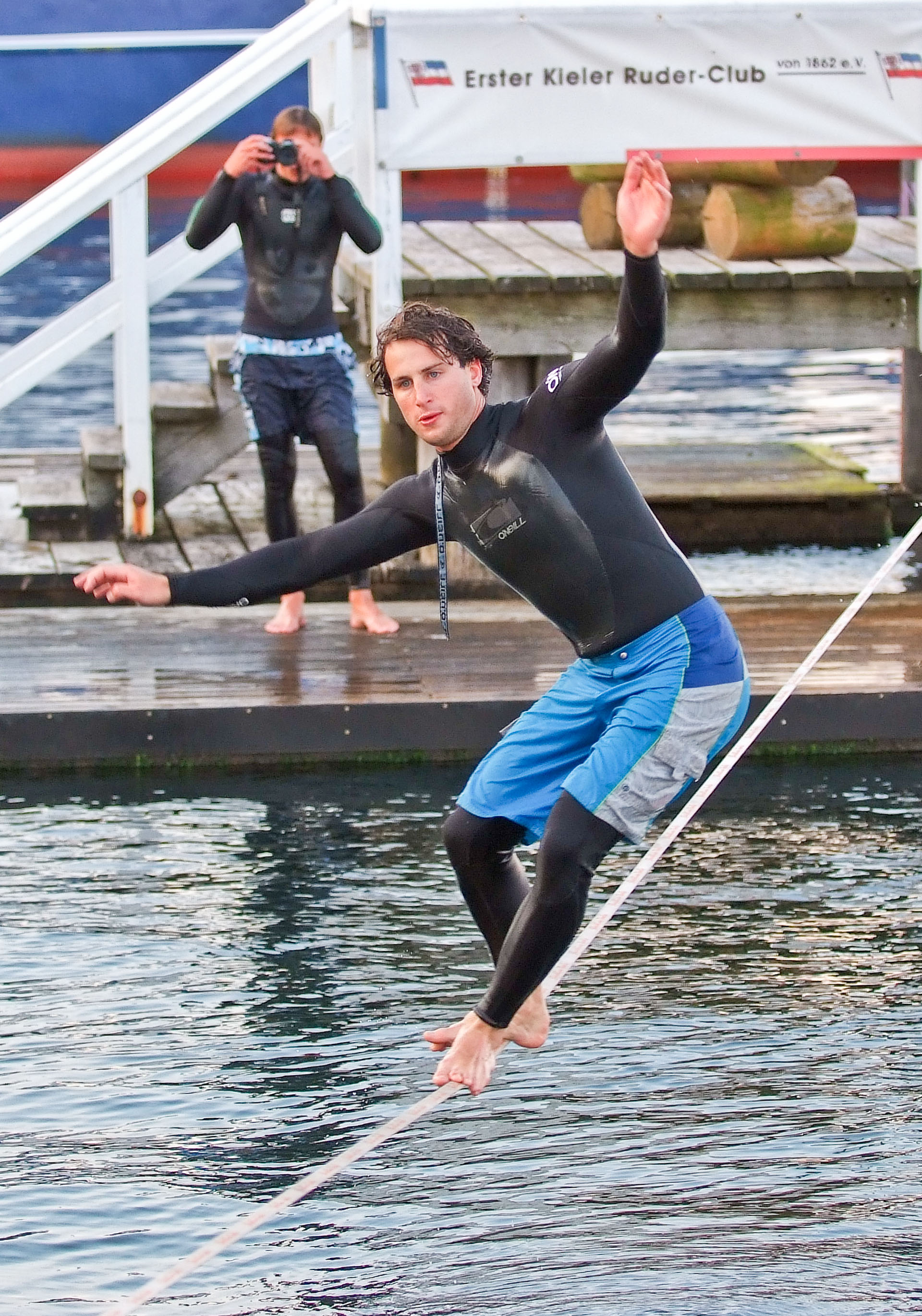 Slacklining in Kiel, Germany